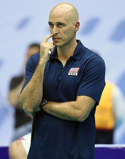 John Speraw in a match against Iran men's national volleyball team in Tehran during 2015 FIVB Volleyball World League.